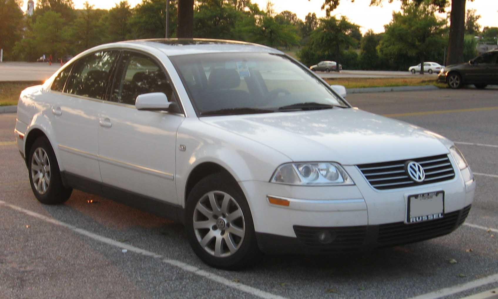 2001-2005 Volkswagen Passat photographed in USA.